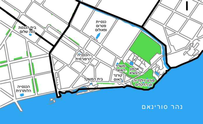 Paramaribo Center map with texts in Hebrew